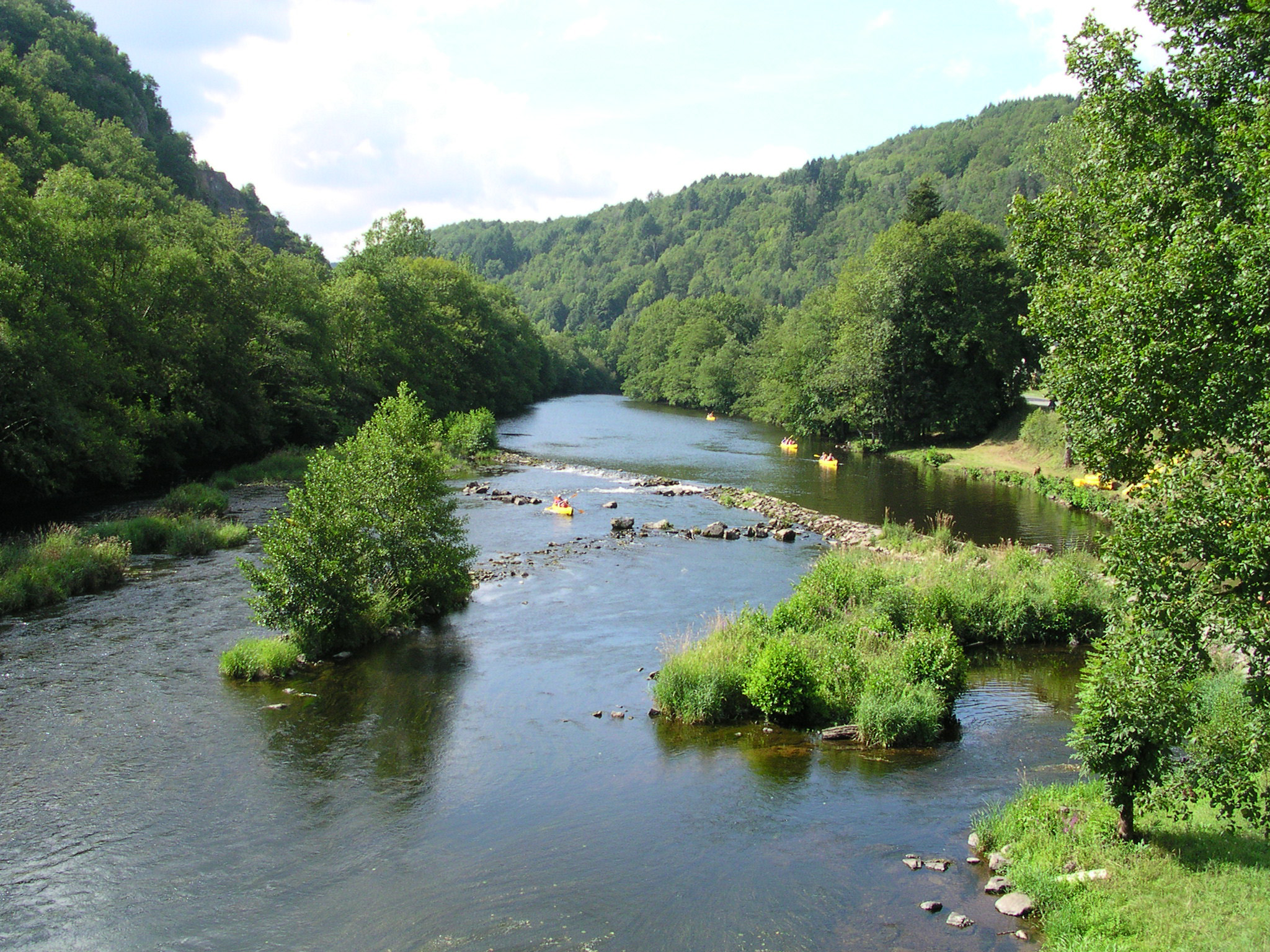 The Sioule river after Chateauneuf-les-Bains (Auvergne, France). Auteur/Author Romary 10/10th août/August 2006